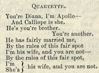 Part of the libretto of Thespis from W. S. Gilbert's Original Plays: Fourth Series page 468. The libretto of Thespis is well-known to be corrupt, and this scan emphasises one small instance of sloppy editing, to wit, "He's you're brother". Retouched to remove a few pencil marks in the upper right that were part of notes on a Thespis reconstruction. Not shown: The left-hand margin notes assigning the lines to various characters.